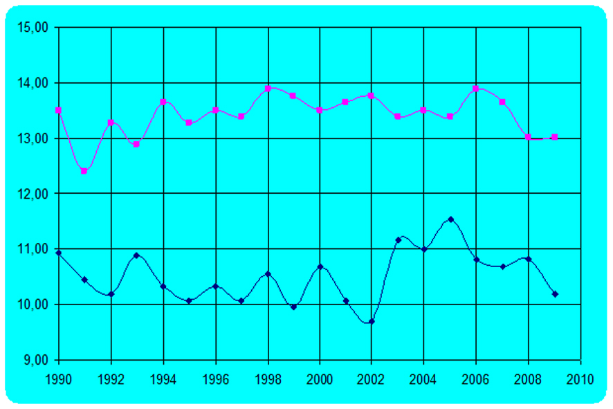 Schedule of perennial minimum and maximum prices of seawater salinity at Nepht Dashlari Point